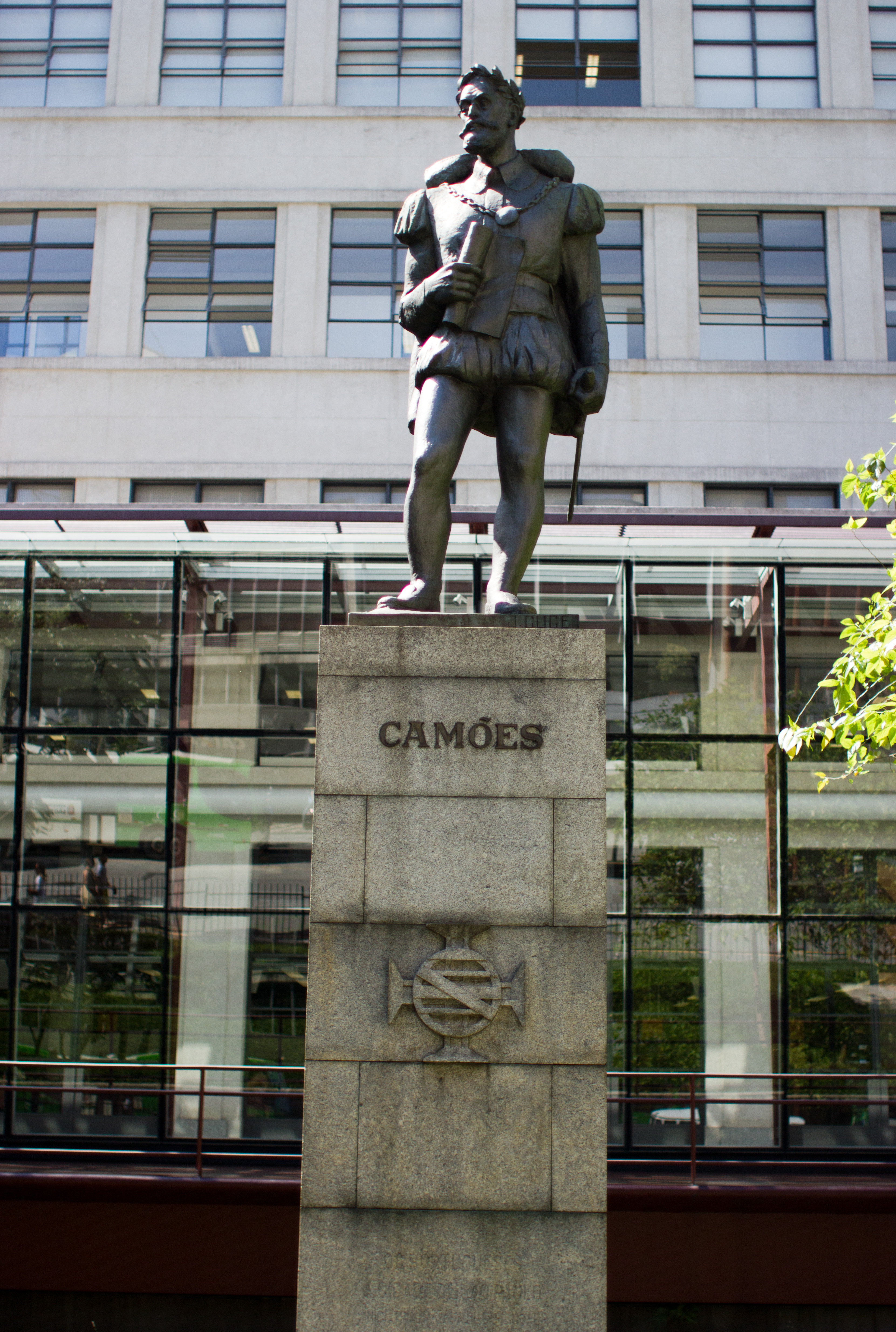 Camoes Statue São Paulo